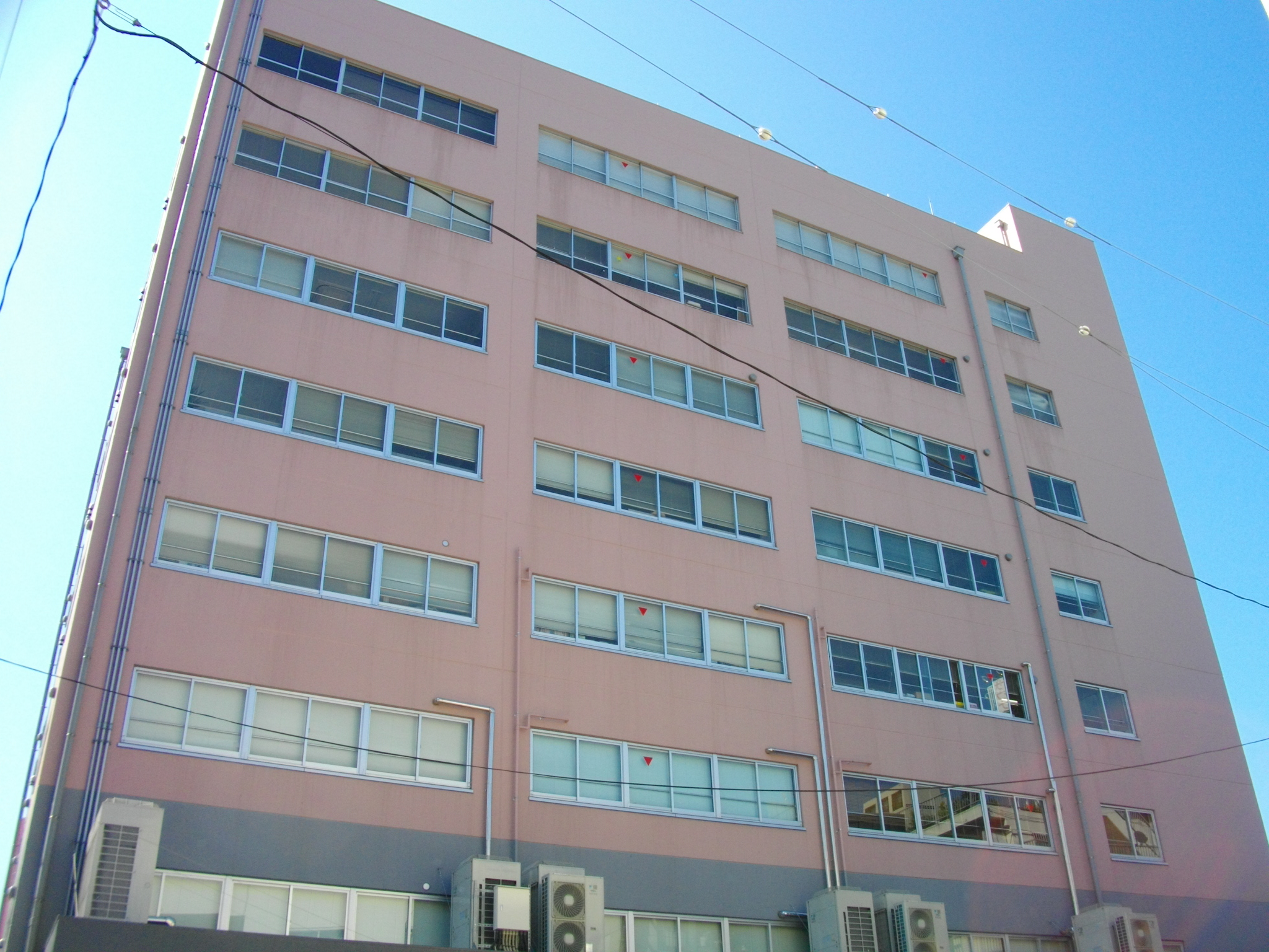 Meijitosho Shuppan Corporation Head Office